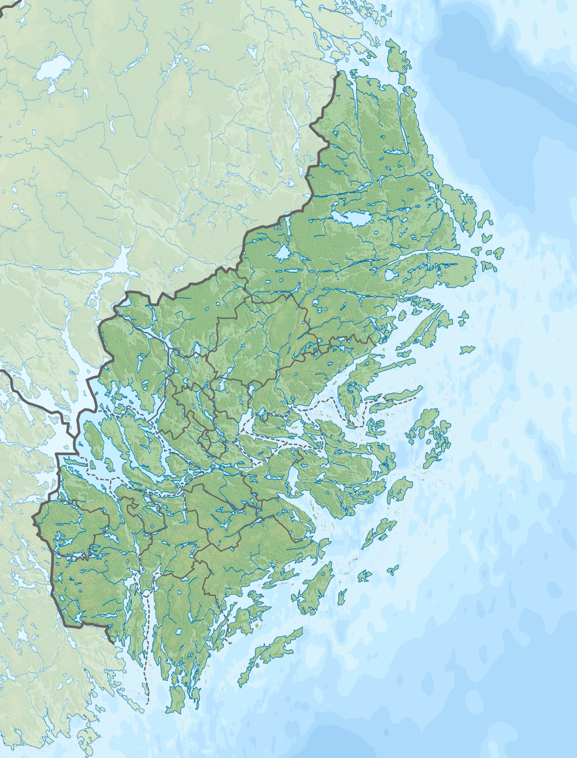 Location map of Stockholm county in Sweden Equirectangular projection, N/S stretching 197 %. Geographic limits of the map: N: 60.30° N S: 58.70° N W: 17.10° E E: 19.50° E